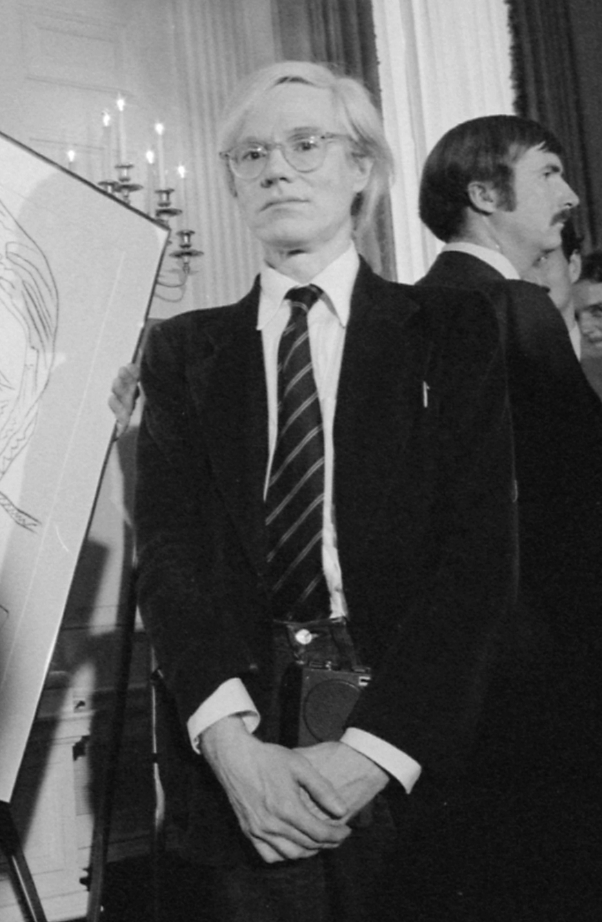 Andy Warhol during a reception for inaugural portfolio artists